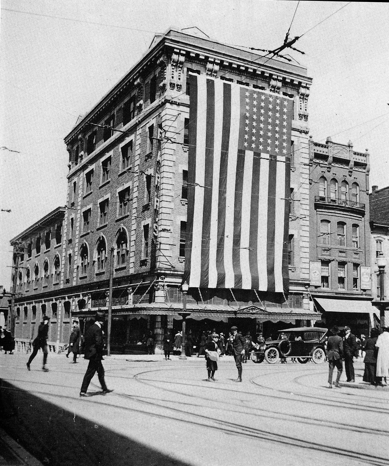 The Farr Building, 8th and Hamilton Streets, Allentown Pennsylvania in 1918 during World War I